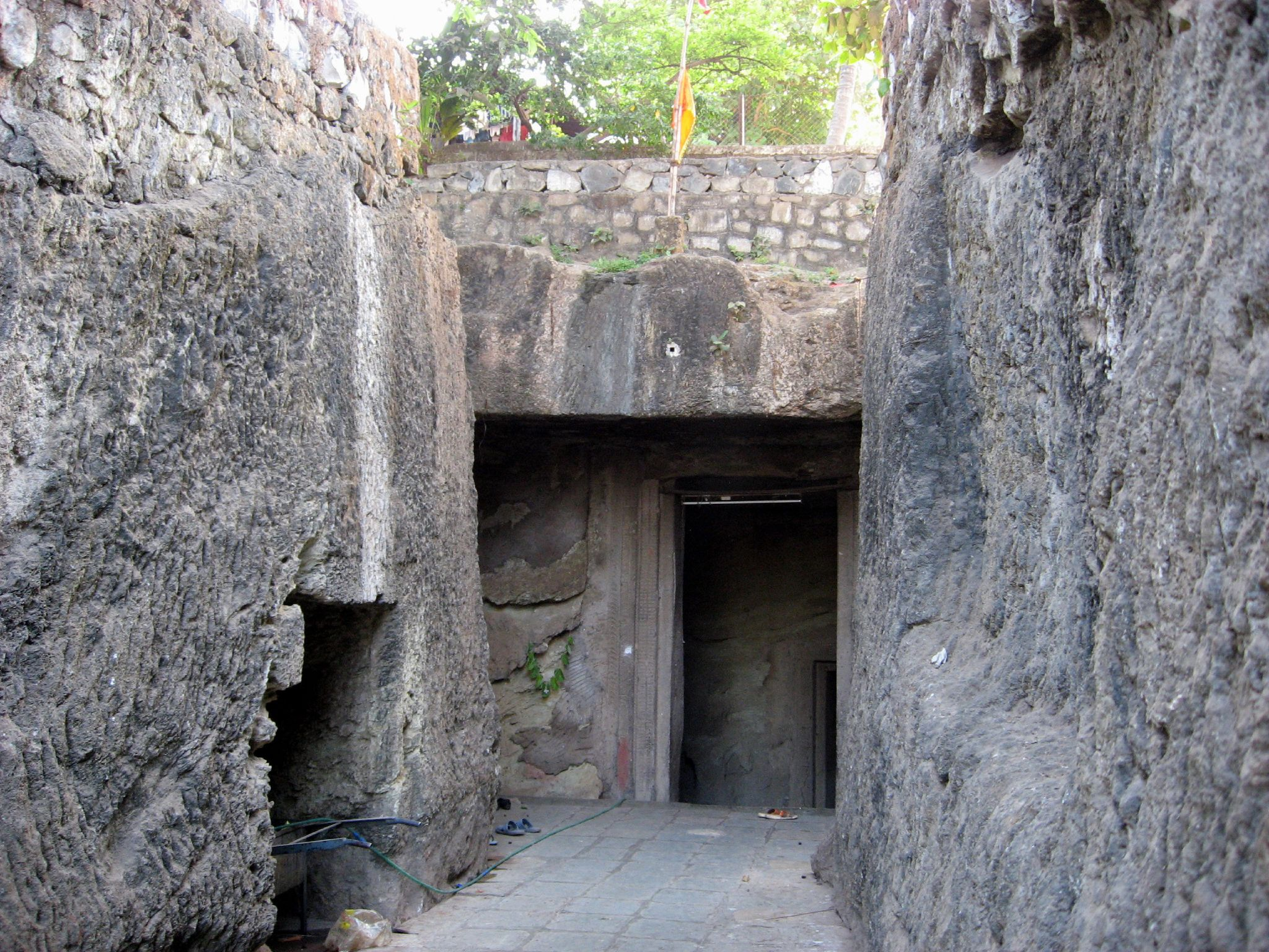 The Jogeshwari Caves are some of the earliest Hindu cave temples sculptures located in the neighbourhood of Jogeshwari (East) in northern Mumbai (Bombay), India.